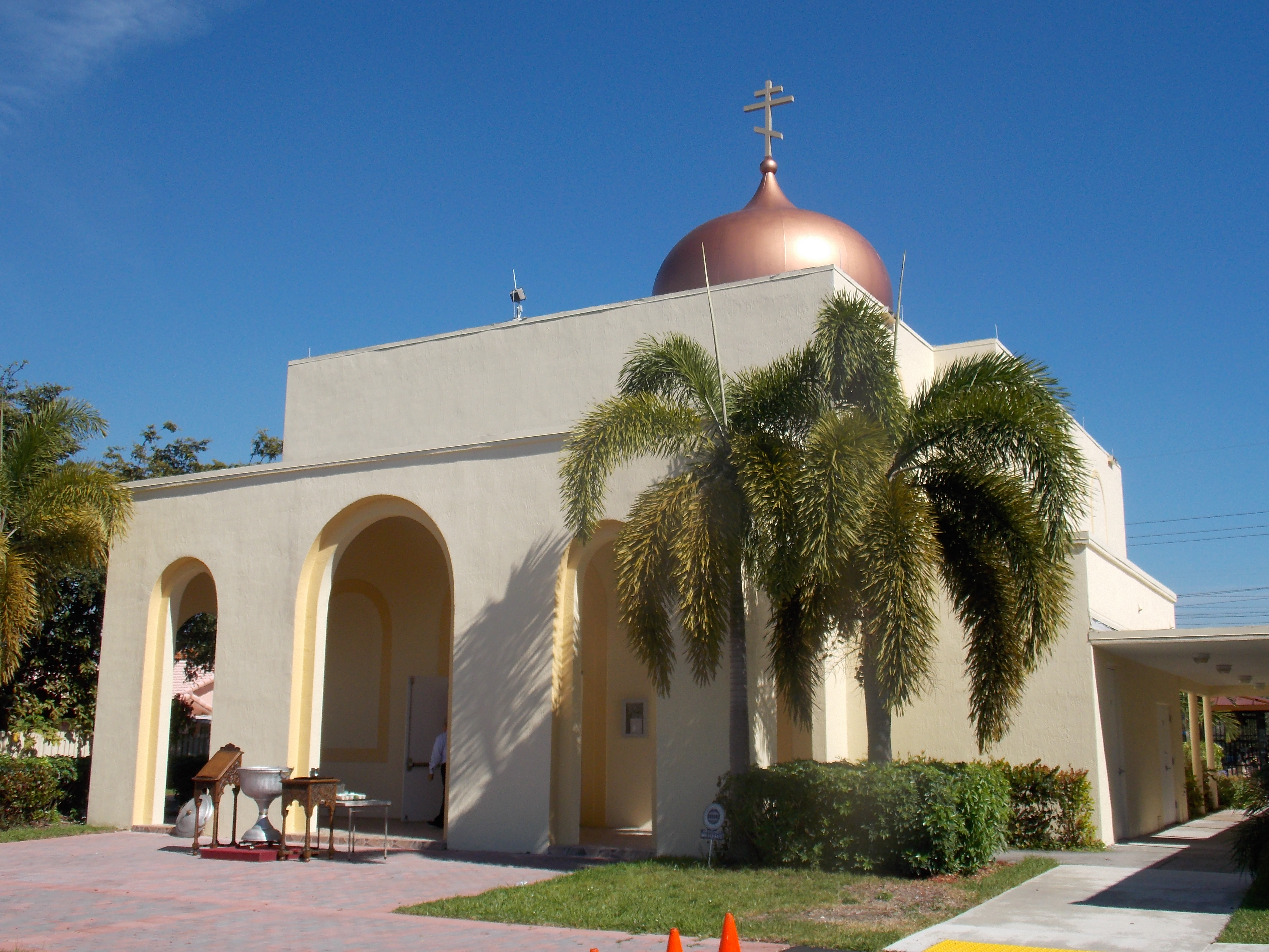 Christ the Saviour Cathedral (Orthodox Church in America) in Miami Lakes, Florida.